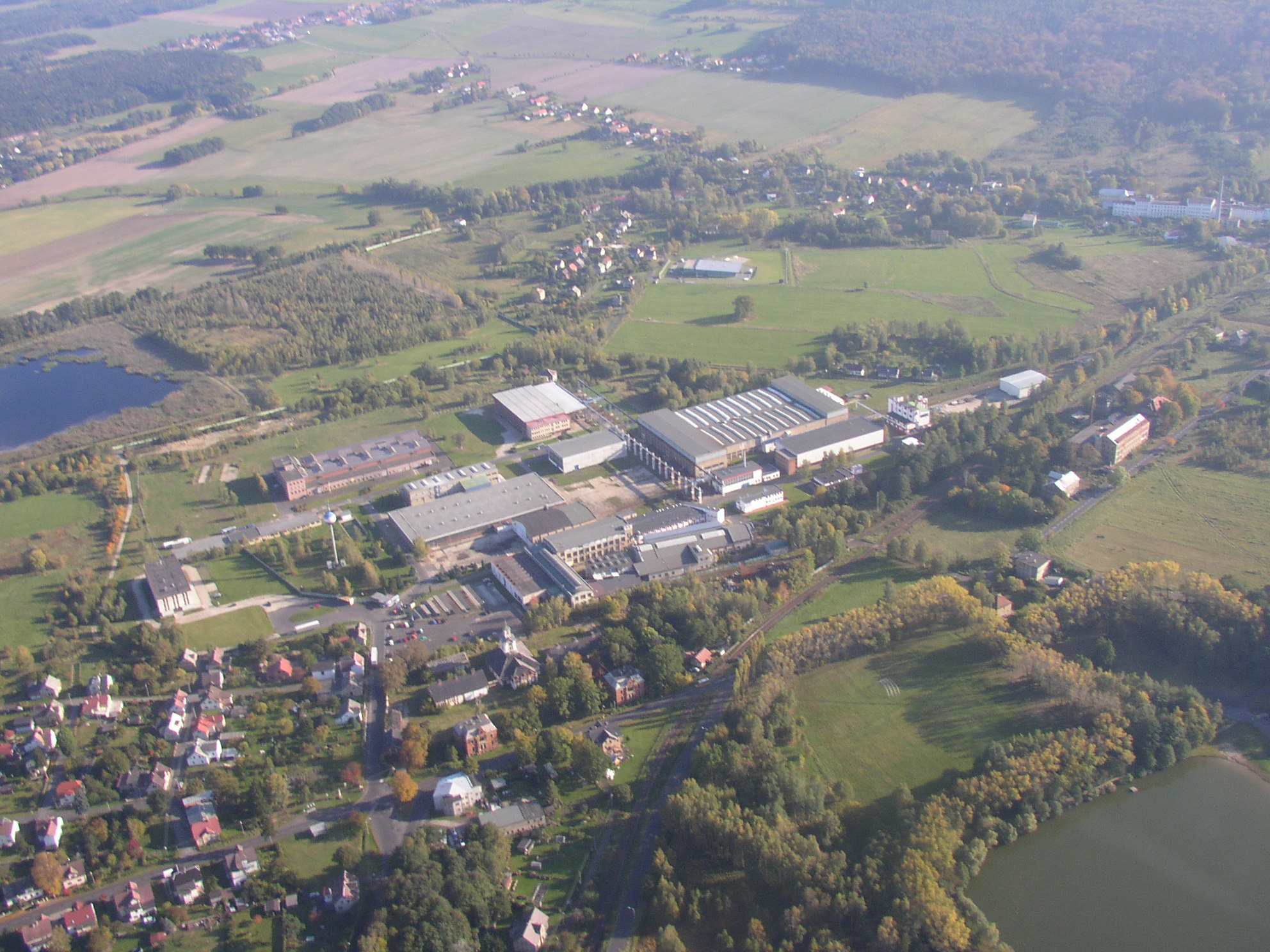 Varnsdorf, Factory for metal-working machines at Varnsdorf lake